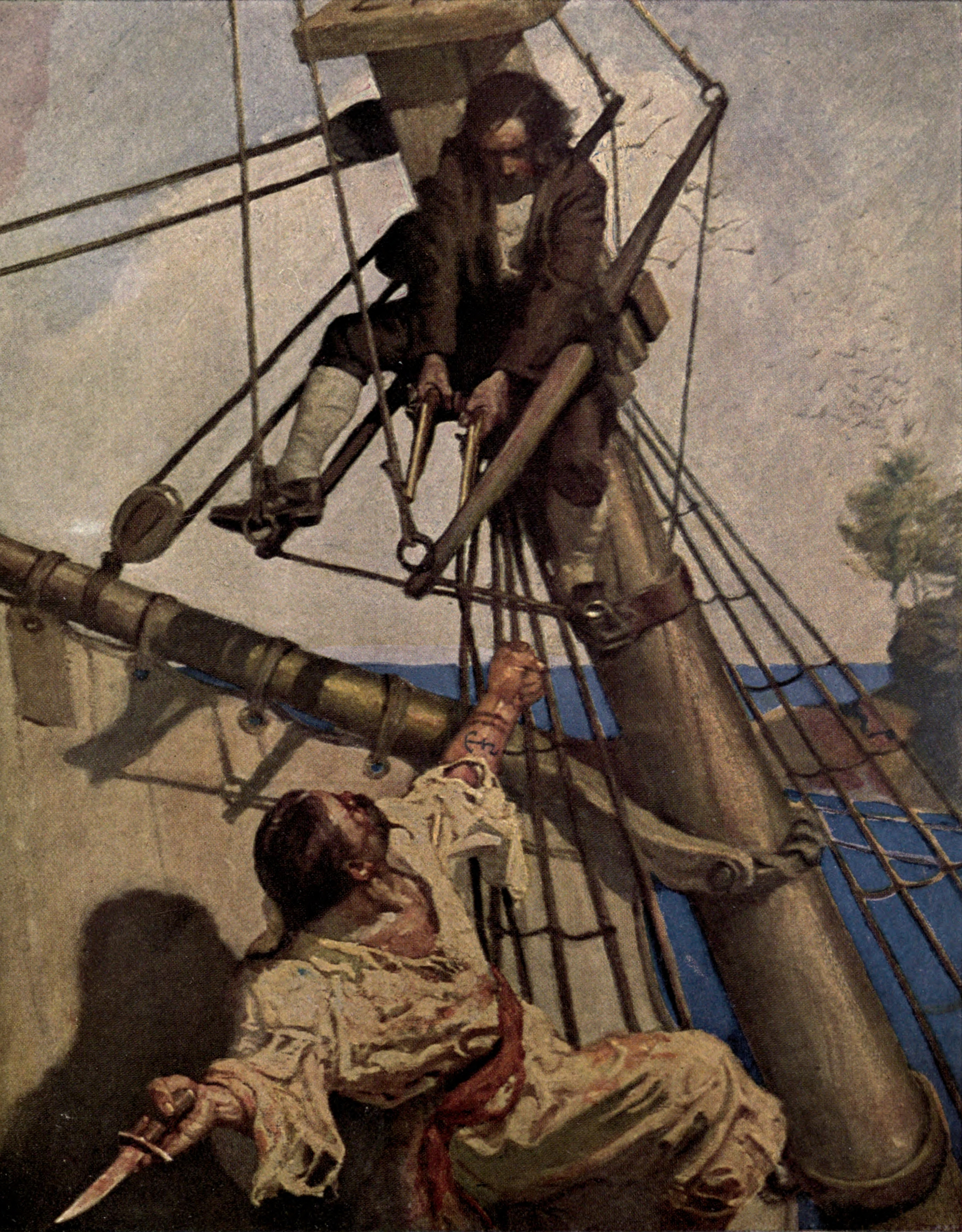 Jim Hawkins fights Israel Hands by N. C. Wyeth from 1911 edition of Treasure Island